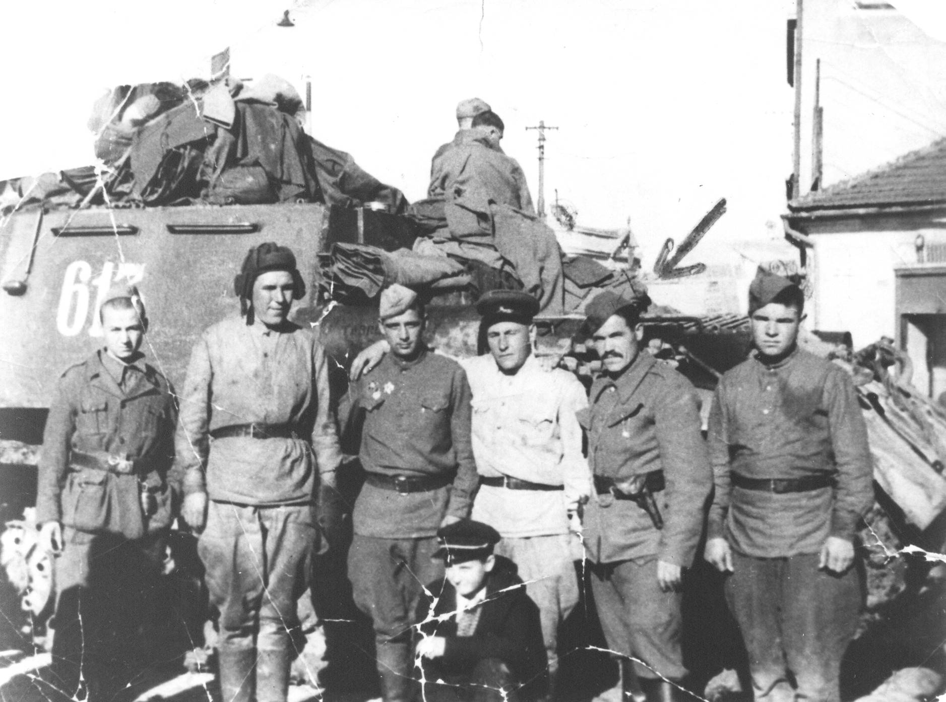 Tito's partisans and Red Army soldiers during battle for Krusevac in early October 1944